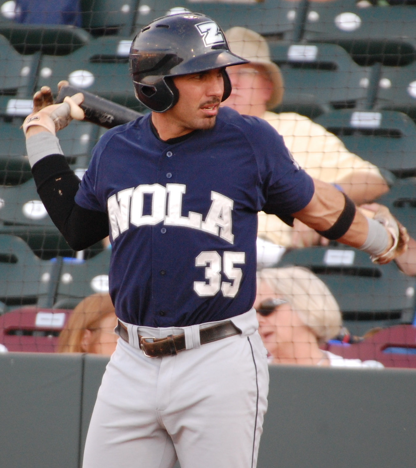 Mike Cervenak with the New Orleans Zephyrs at Werner Park in Omaha in 2012